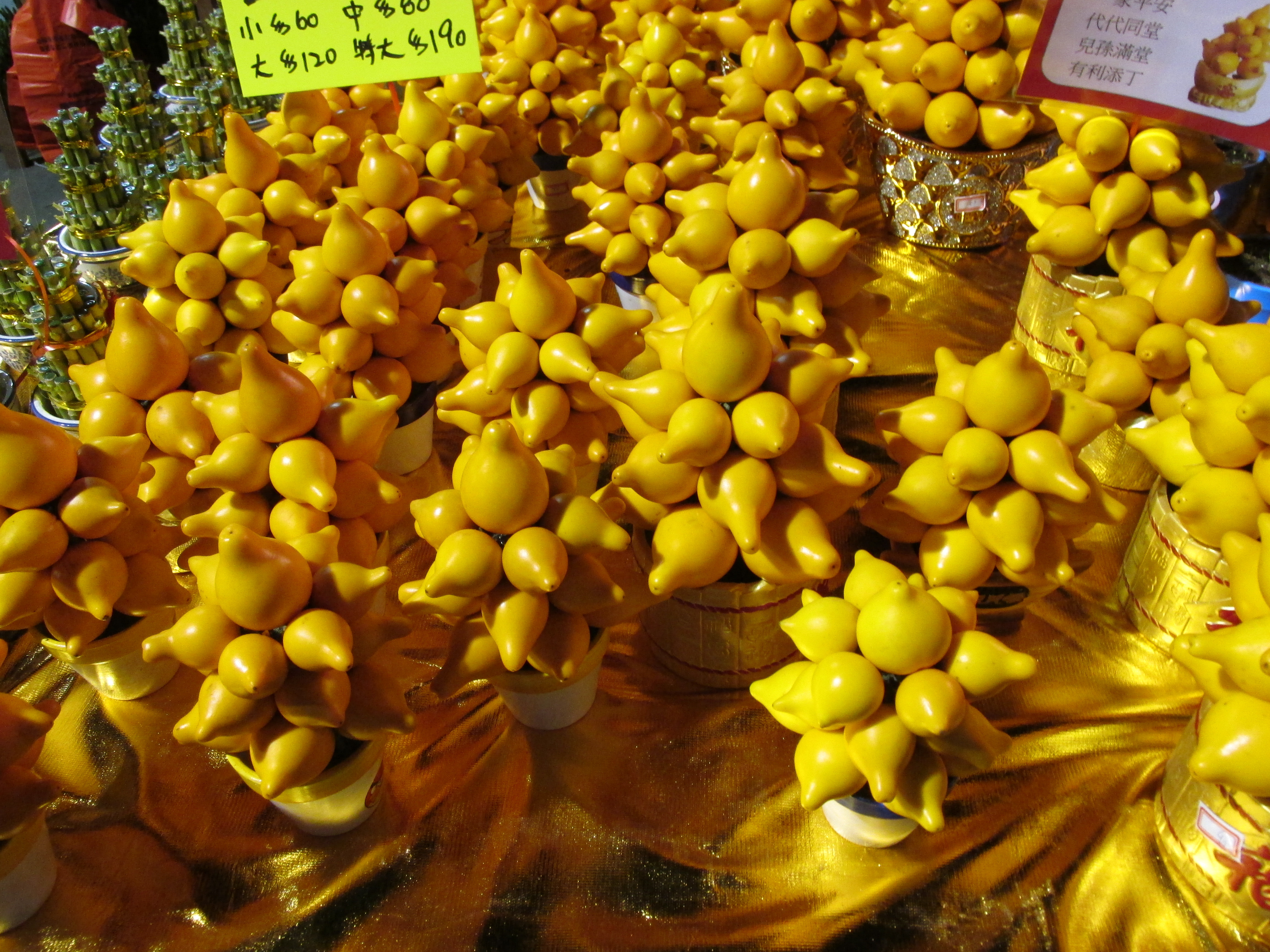 Solanum mammosum sold at the Chinese New Year Fair in Victoria Park, Hong Kong, China check usage